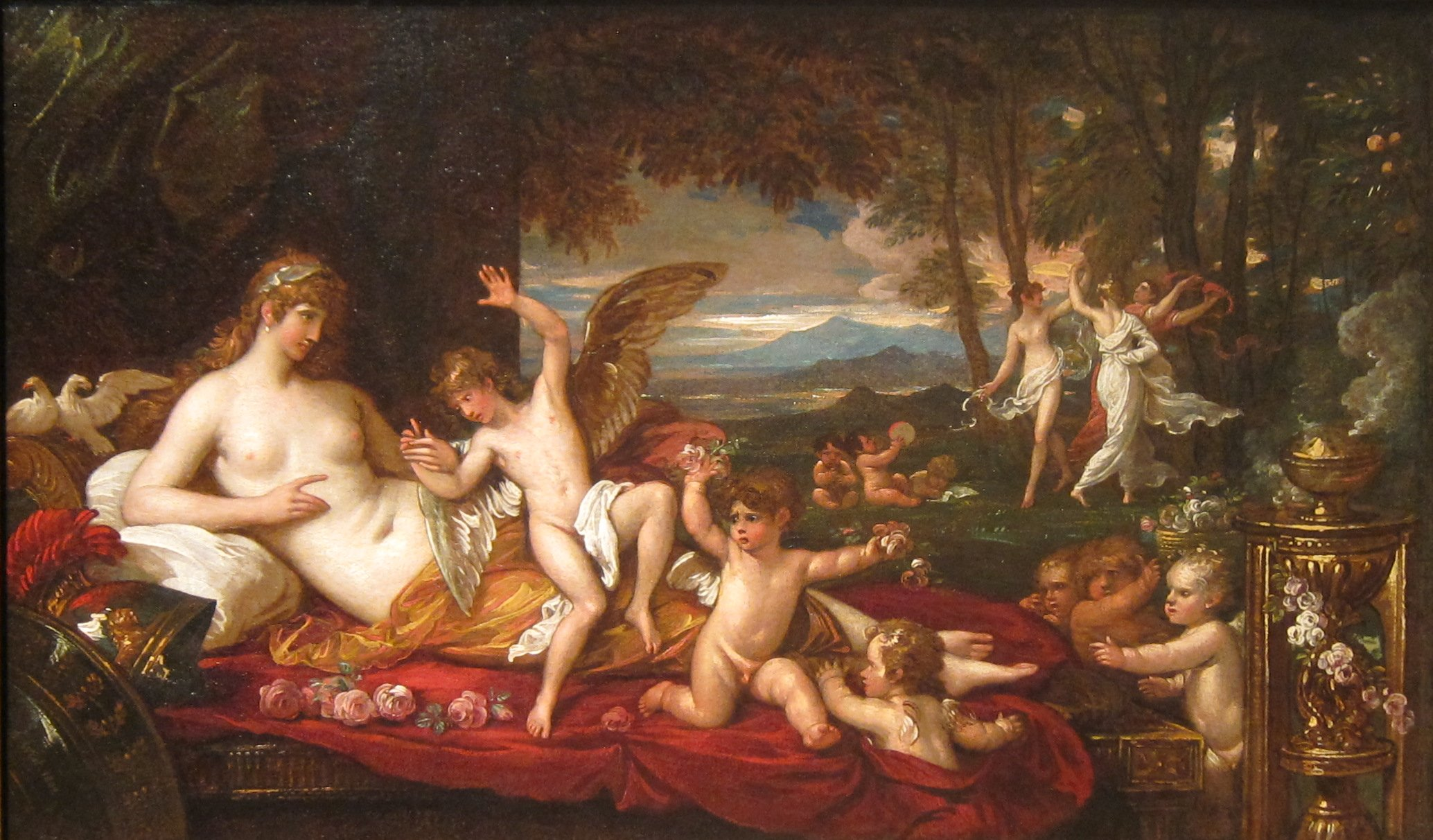 Cupid Stung by a Beelabel QS:Len,"Cupid Stung by a Bee"